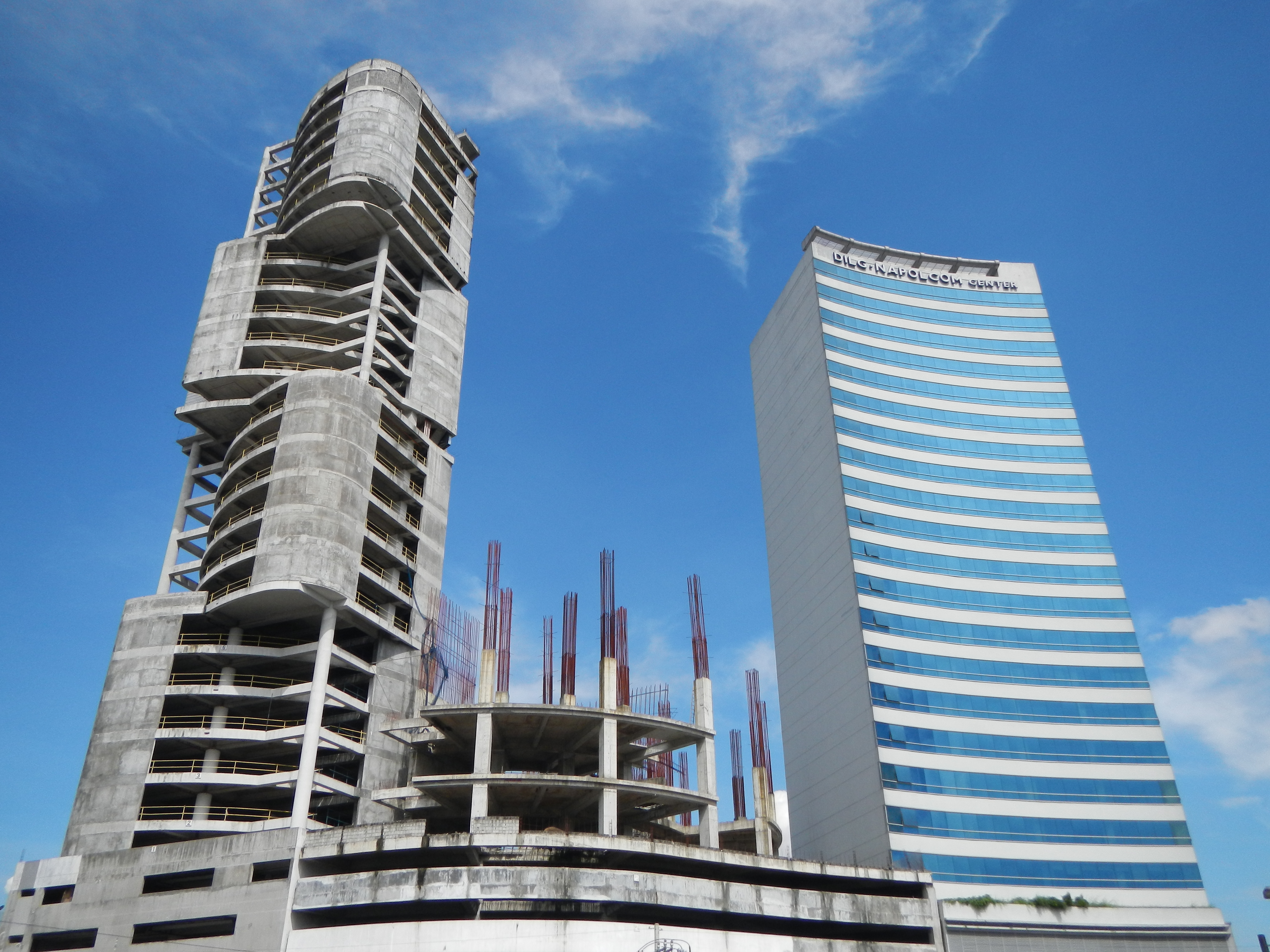 UploadWizard photos -- (General description, 3-dimension angle by angle photography of this town, church & landmarks) -- of the foot bridge view of. and from, photography --- of Quezon Avenue[1], Quezon Avenue MRT Station [2] EDSA[3], intersection footbridge, and the Gregorio Araneta Avenue Underpass, Quezon City[4], the Department of the Interior and Local Government [5] & National Police Commission (Philippines) [6] Center building & --- -- Bust, Monument of Hon. Magdaleno "Denong" Palacol, at Bus Stop, terminal, junction near footbridge at Pagsawitan, Santa Cruz, Laguna[7] .